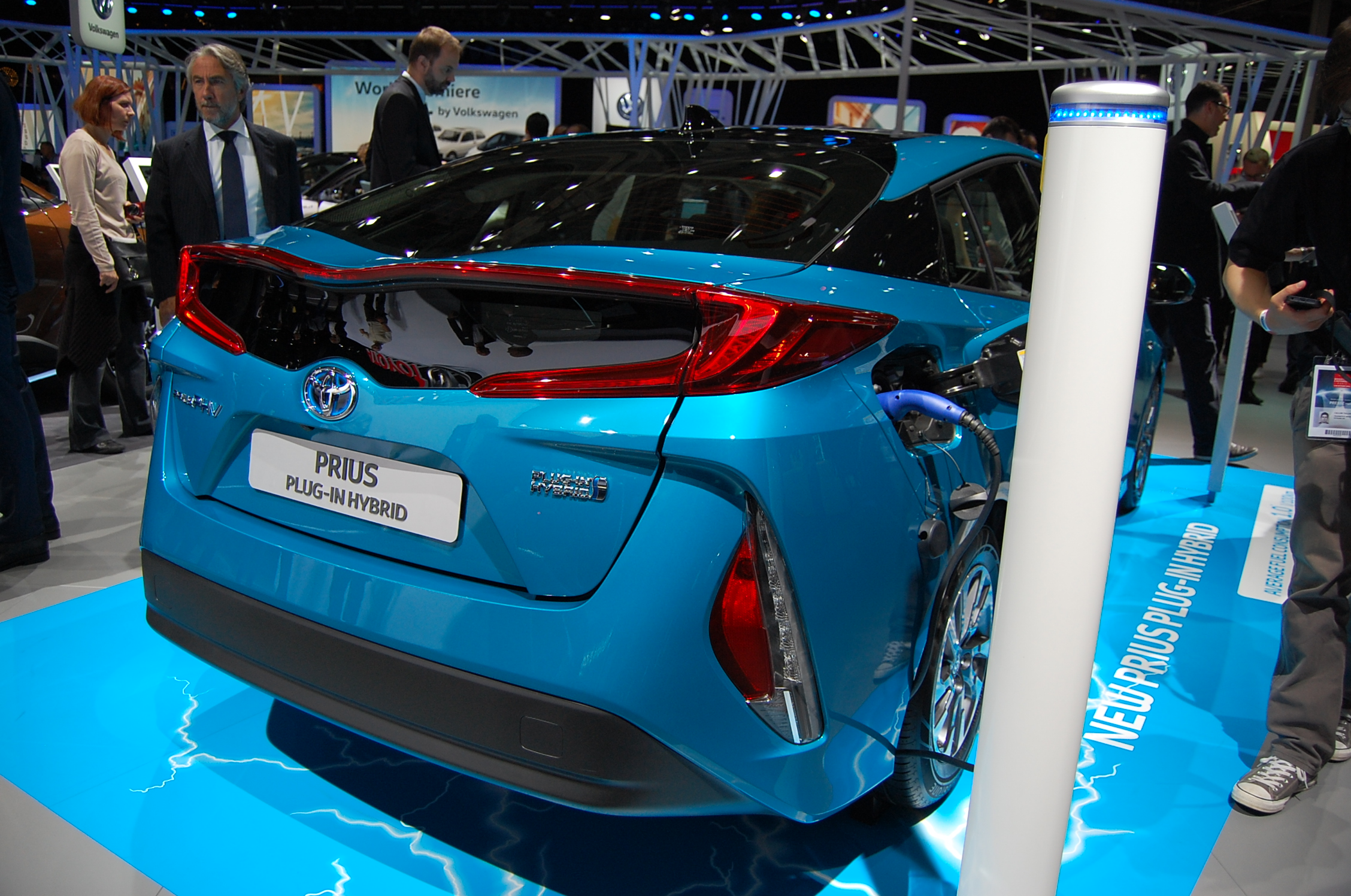 Toyota Prius Plug-in Hybrid (Prius Prime in North America) at the Paris Motor Show - September 2016